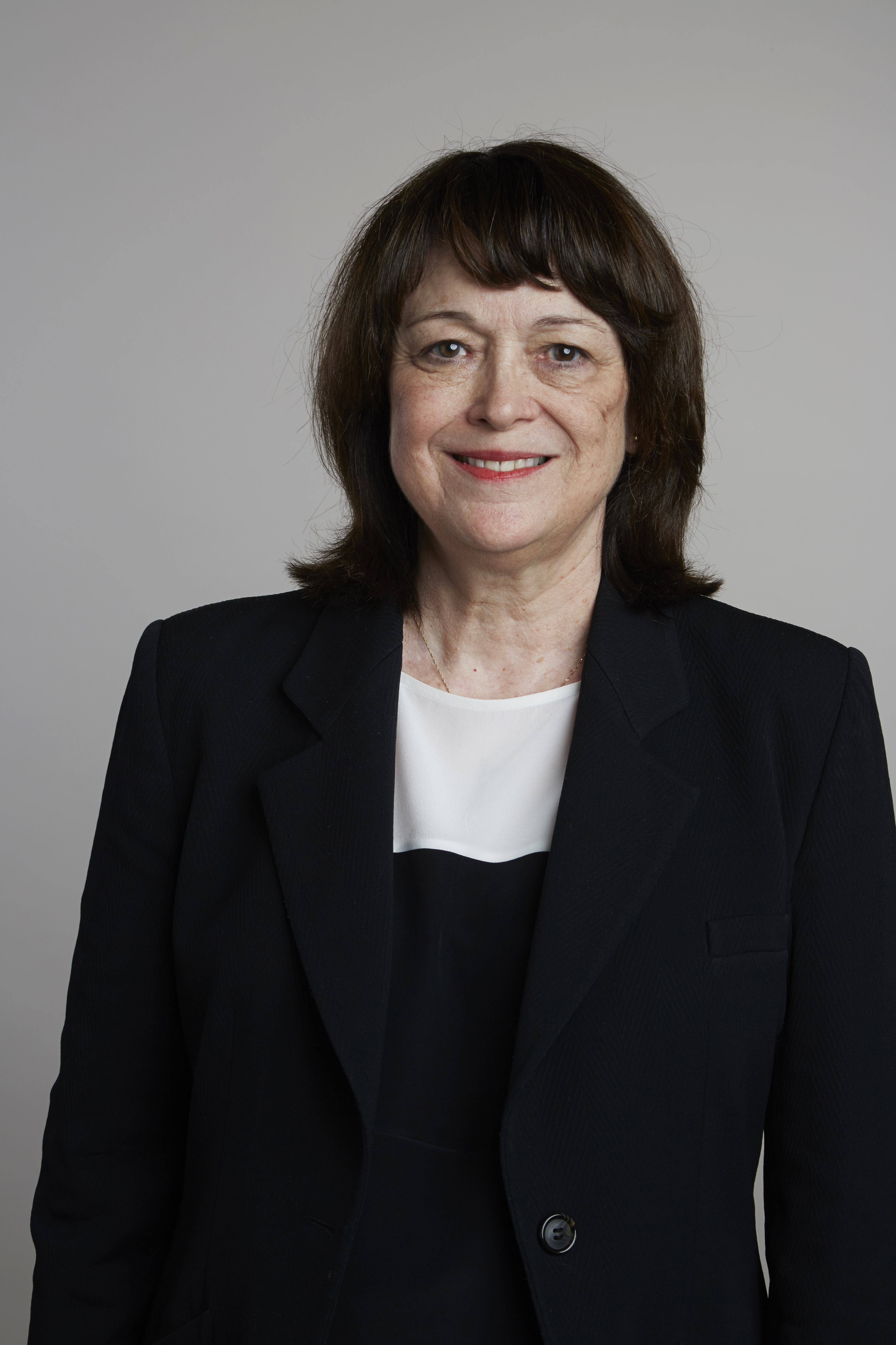 Linda Buck’s research has transformed the field of odorant perception through the cloning of mammalian olfactory receptors. Together with Richard Axel, Buck developed an ingenious method to identify a G protein-coupled odorant receptor family of unprecedented size, comprising up to 1000 distinct genes members. Buck then used olfactory receptor genes as molecular tools to gain insight into the mechanisms and organisations strategies underlying odor perception. Her work showed that the olfactory epithelium is comprised of spatial zones that express different sets of receptor genes and that each zone is a mosaic of randomly interspersed neurons expressing different receptors. Buck then showed that individual olfactory neurons express a single receptor gene. In later work, Buck has documented the organization of olfactory axonal projections into the brain. Buck’s work has been recognised by award of the 2004 Nobel Prize. Attribution: The Royal Society